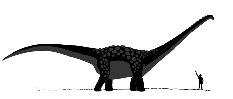 speculative form of a Antarctosaurus. there are too few pieces found to make a more detailed image.